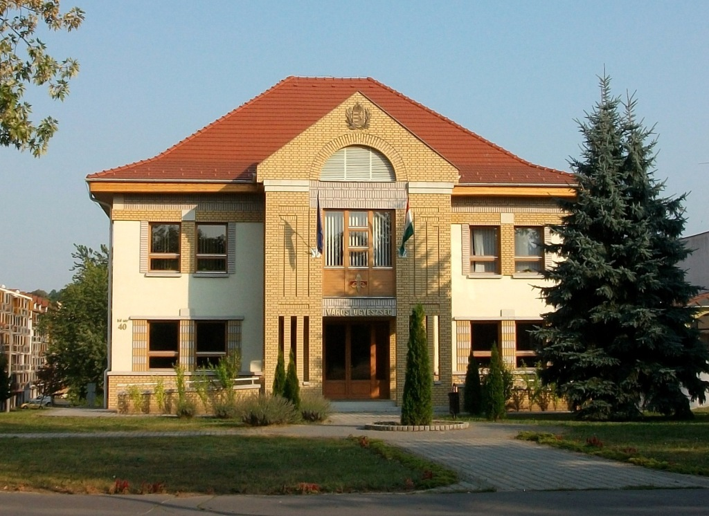 Public Prosecution building, Kazincbarcika, Hungary